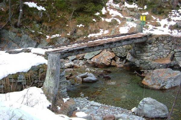 Footpath bridge in the mountains above Vallorcine, France. A log bridge which has well locked dry set stone abutments and a footpath leveled with boards.